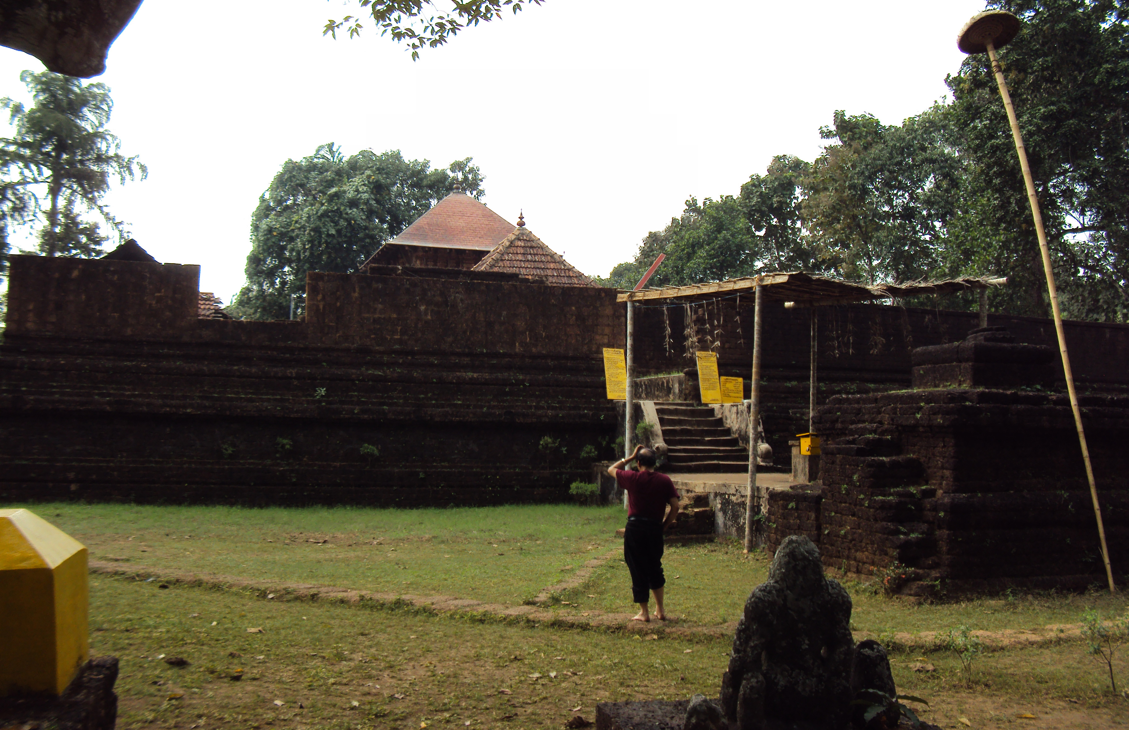 Thodikkalam siva temple - തൊടീക്കളം ക്ഷേത്രം